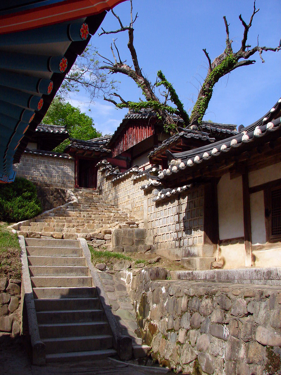 Dosan Seowon - Confucian Academy, was established in 1574 in Andong, South Korea, in memory of Confucian scholar Yi Hwang by some of his disciples and other Confucian authorities and serves two purposes: education and commemoration. Commemorative ceremonies have been and are still held twice a year and was featured on the reverse of the South Korean 1,000 won bill from 1975 until 2007.